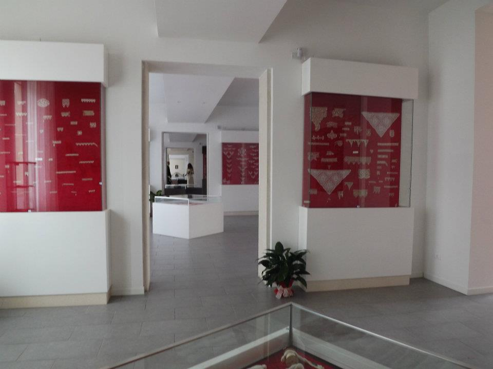 Museum of Pillow lace in Mirabella Imbaccari